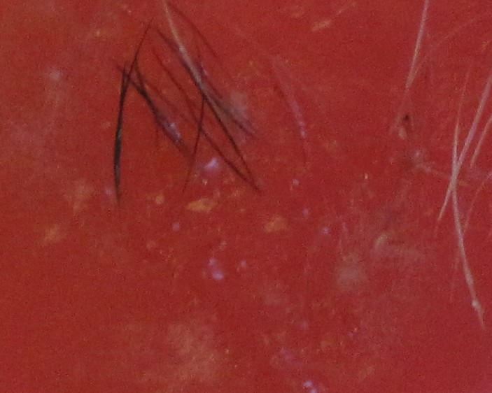 culture of Microsporum canis from a hair sample of a dog